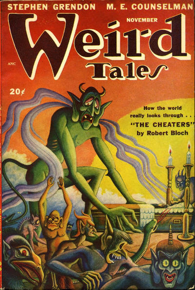 Cover of the pulp magazine Weird Tales (November 1947, volume 40, number 1) featuring "The Cheaters" by Robert Bloch.